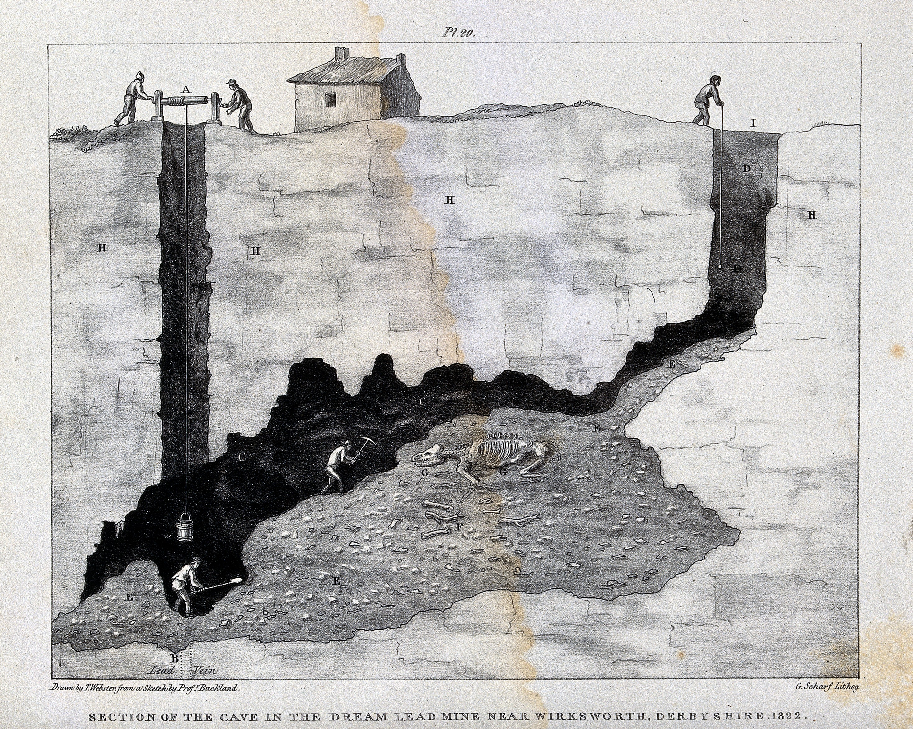 Cross-section of a lead mine in Derbyshire, showing miners working towards an animal fossil. Lithograph by T. Webster after a sketch by Prof. Buckland. The original image is captioned: "Section of the cave in Dream Lead Mine near Wirksworth, Derbyshire, 1822" and forms Plate 20 of Buckland's 'Reliquiae Diluvianae', published in 1823, and illustrates a detailed visit to Dream Cave, described on pages 61-67. Iconographic Collections Keywords: ic; Thomas Webster; Prof. Buckland